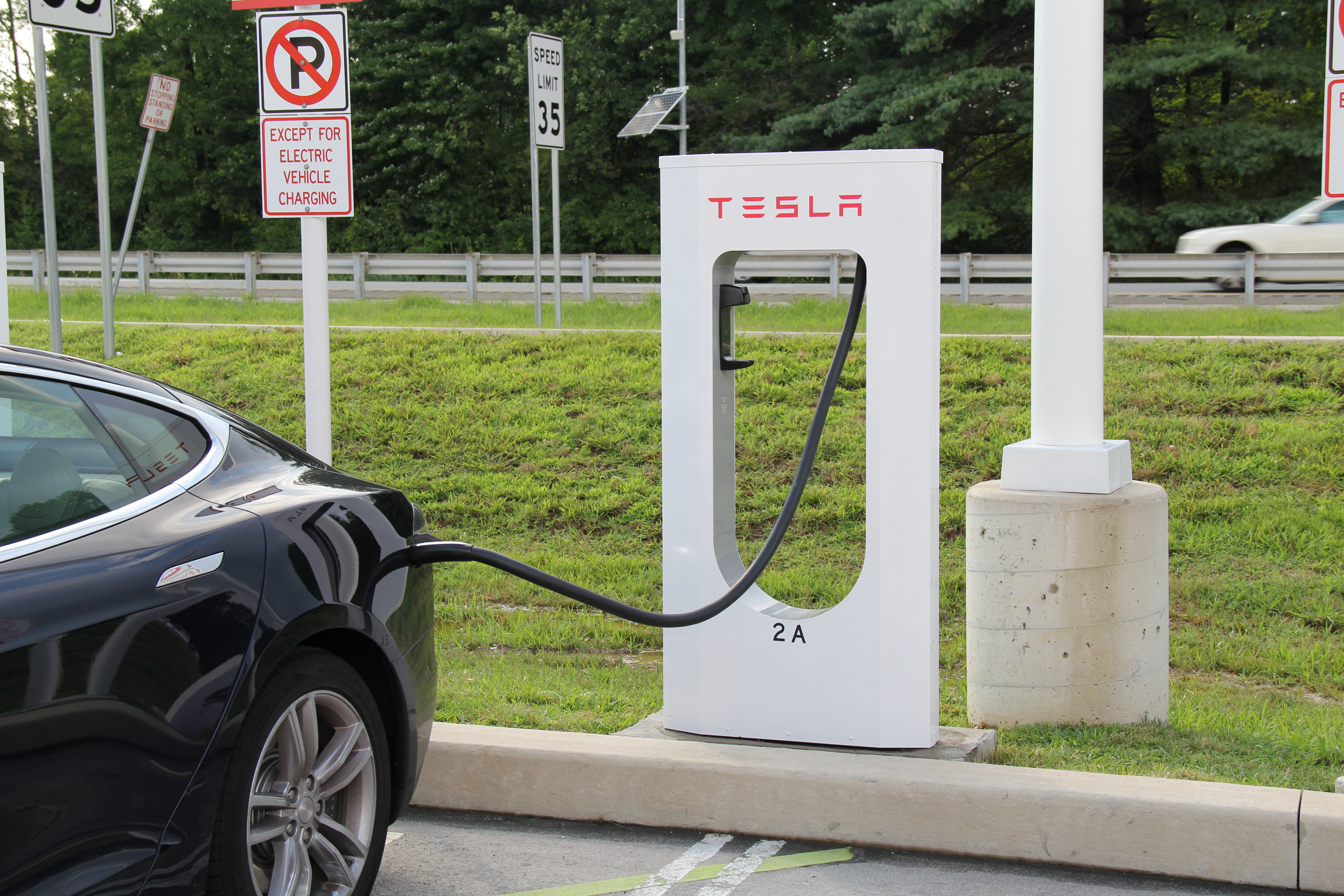 Tesla Model S charging at a Tesla Supercharger station at the Delaware Welcome Center.